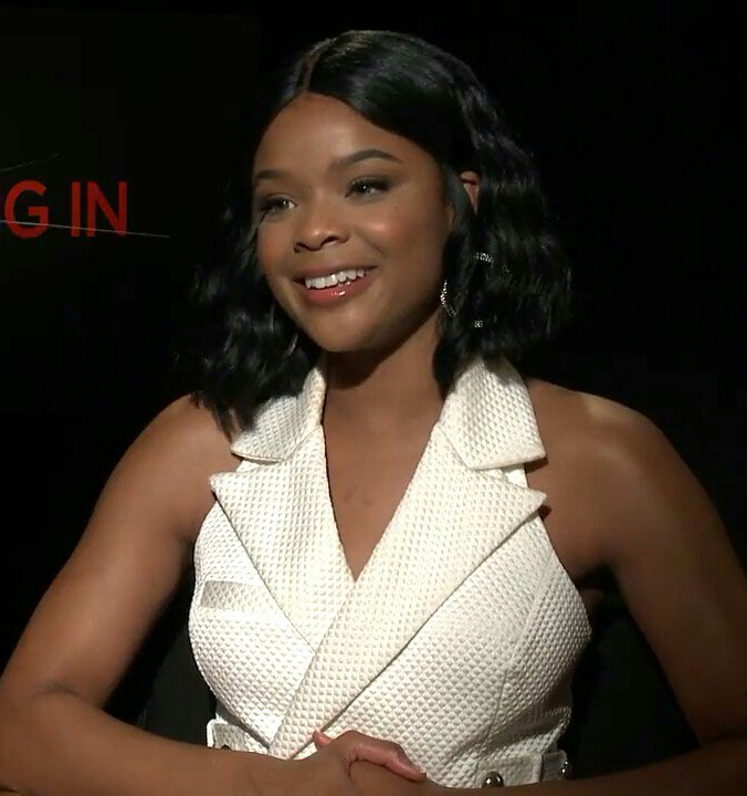 Let’s Go Speed Dating With Ajiona Alexus! MTV Movies